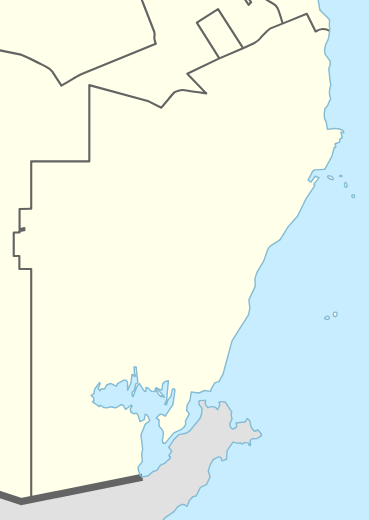 Al Wakrah Municipality